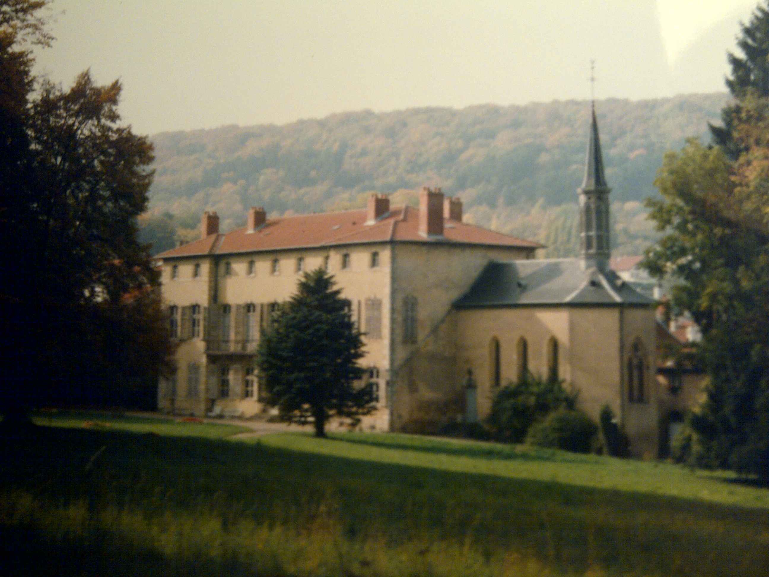 General view of Château de Chambrun (Houdemont - France)